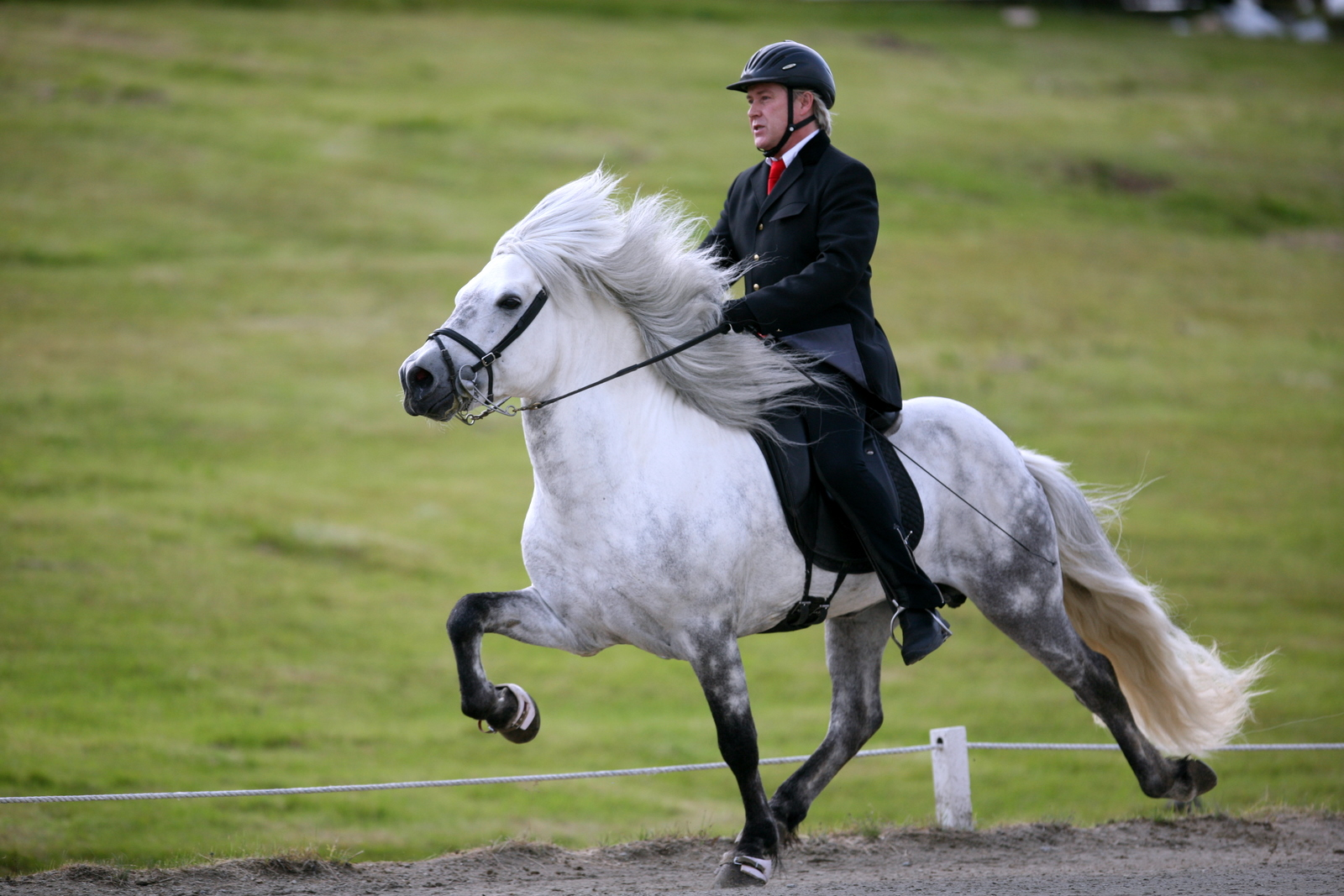 Guðmundur Arnarson rides Sævar frá Stangarholti (grey with sunfading black base) in tölti at five-gait horse championships in Hella, 2008.